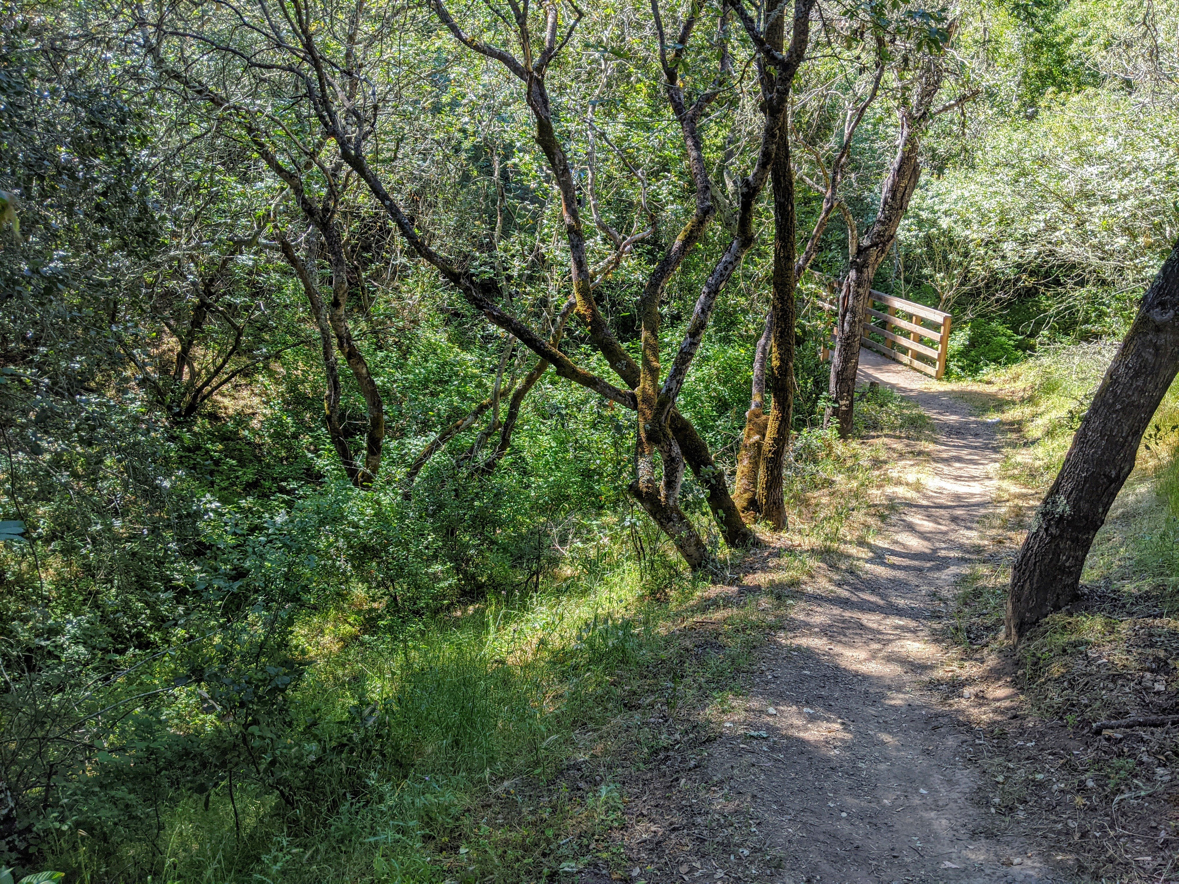 A path with bridge crossing Deer Creek, on the main stem (according to where the GNIS says the source is), Los Altos Hills, Santa Clara County, California. It's hard to see the creek, even at the bridge.